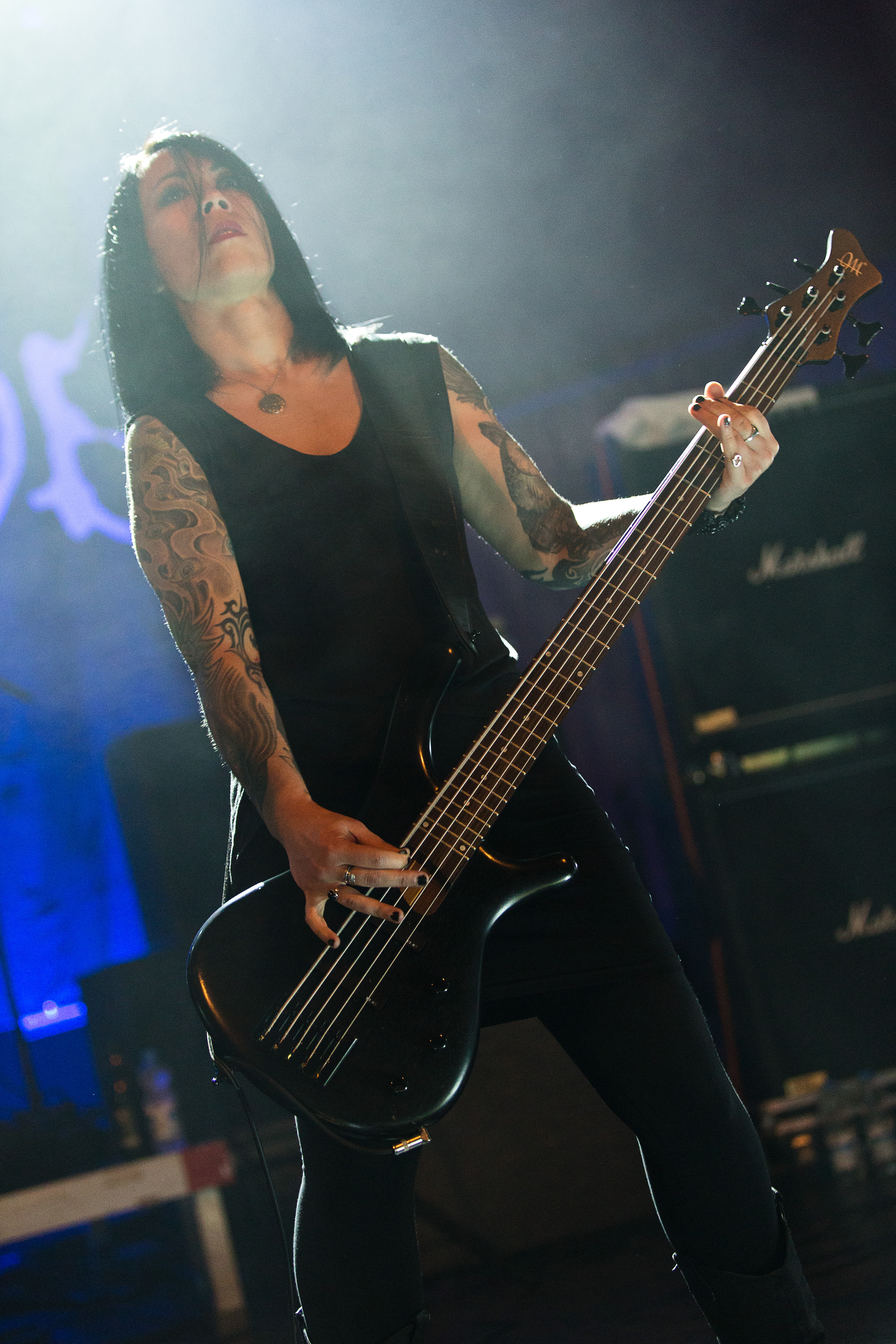 The British doom metal band My Dying Bride at the 25. Wave-Gotik-Treffen 2016 in Leipzig/Germany.